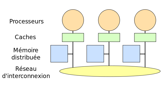 Architecture NUMA